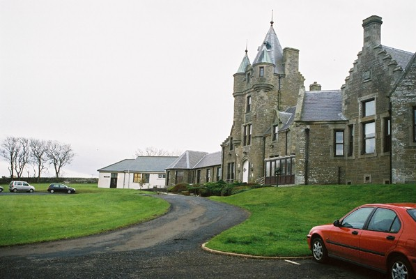 Dunbar Hospital, Thurso Community Hospital offering geriatric care, palliative care and a minor injuries unit.